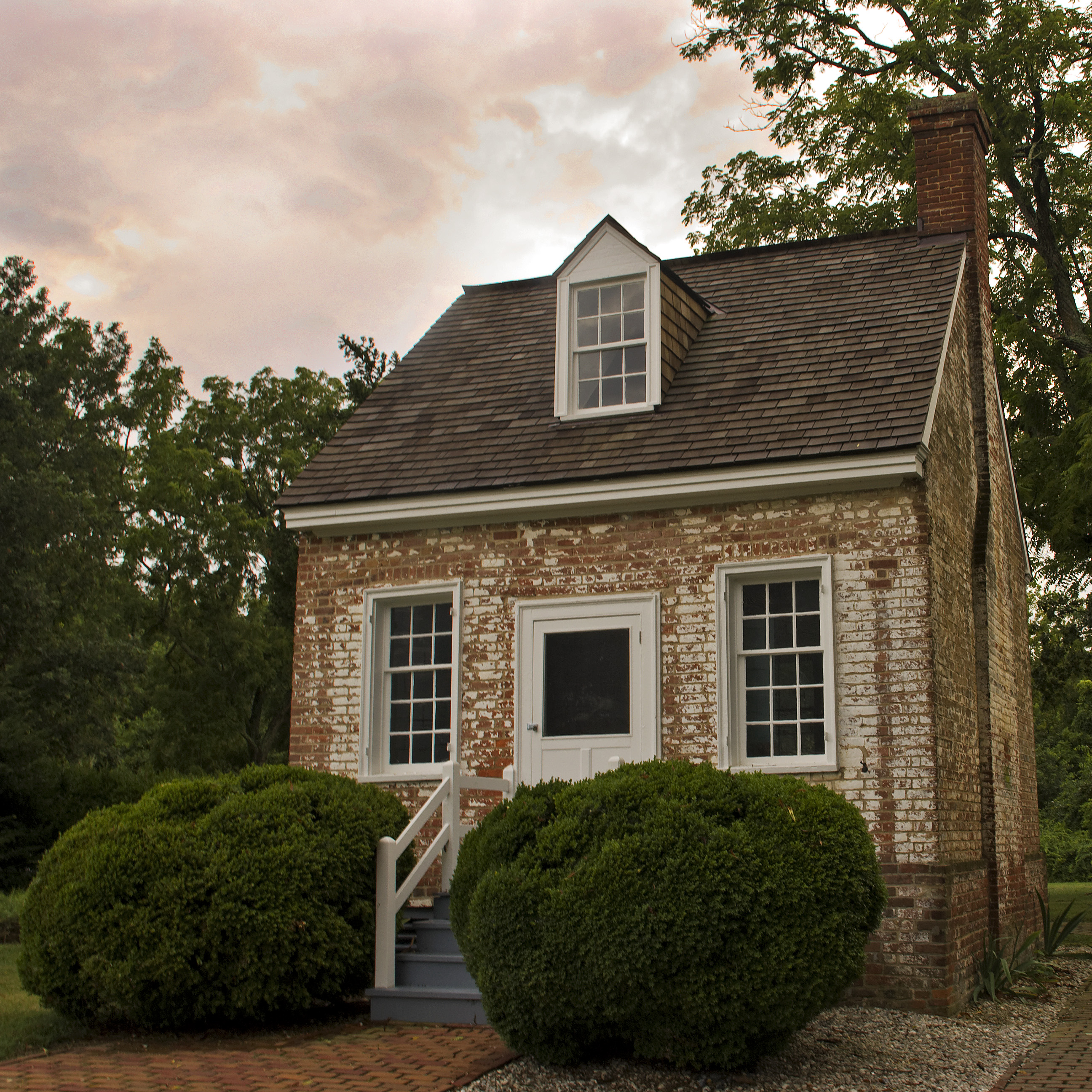 This one-room school house dates back to colonial times. The brick structure stood proudly next to the famed Wye Oak until the mighty tree fell in 2002. The schoolhouse is part of the Wye Oak State Park in Wye Mills, MD.